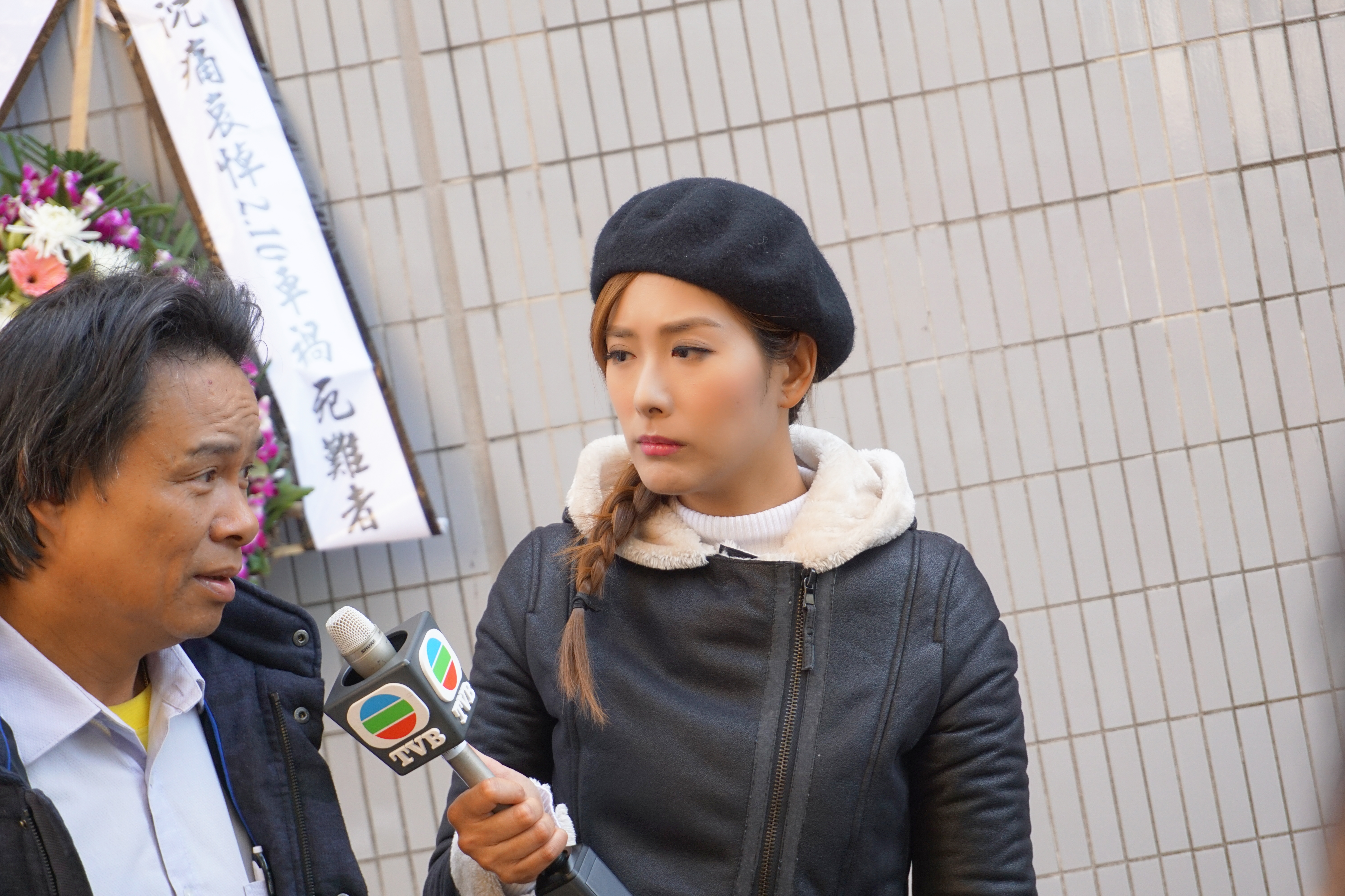 Amy Ng Hang-mei, TVB artist, Hong Kong.